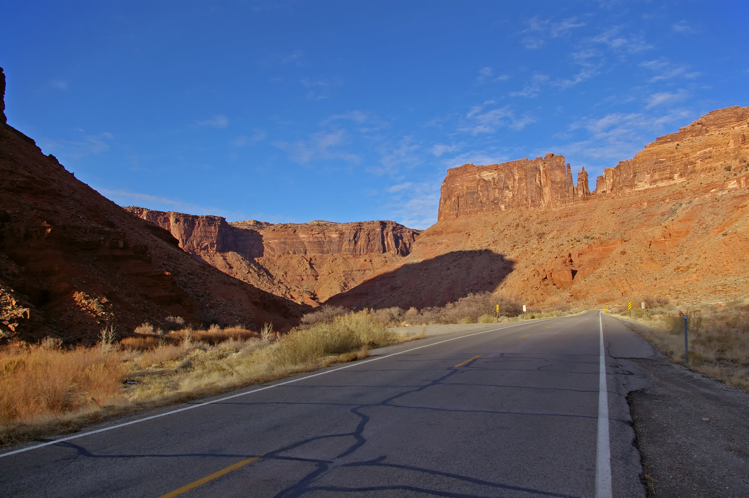 a typical scene along Utah State Route 128